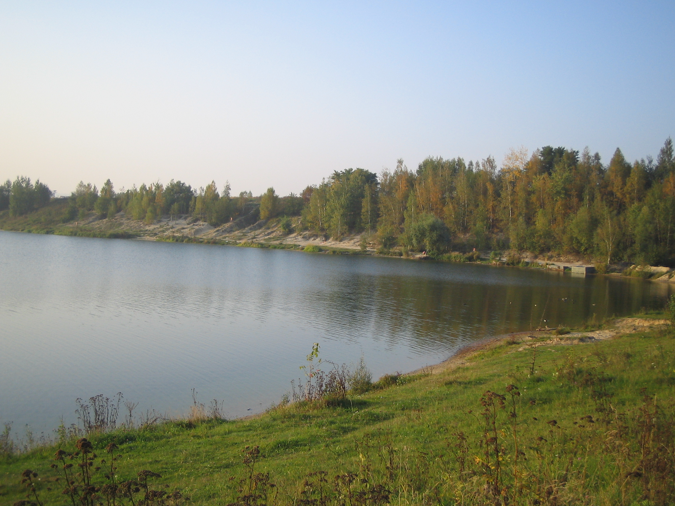 Kryspinów lake, close to Cracow, Poland